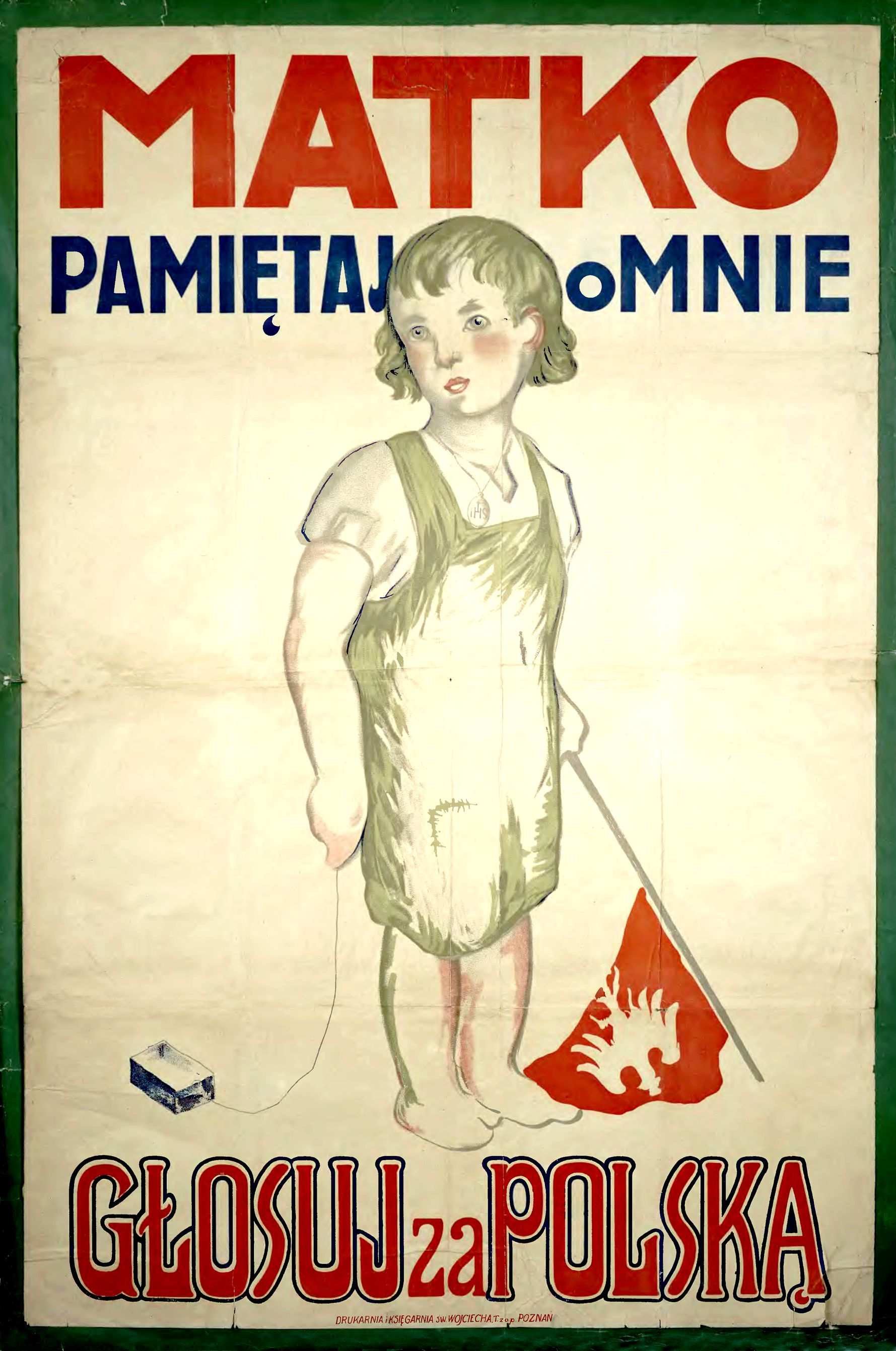 Plebiscite in Upper Silesia (1921) - Polish propaganda poster.